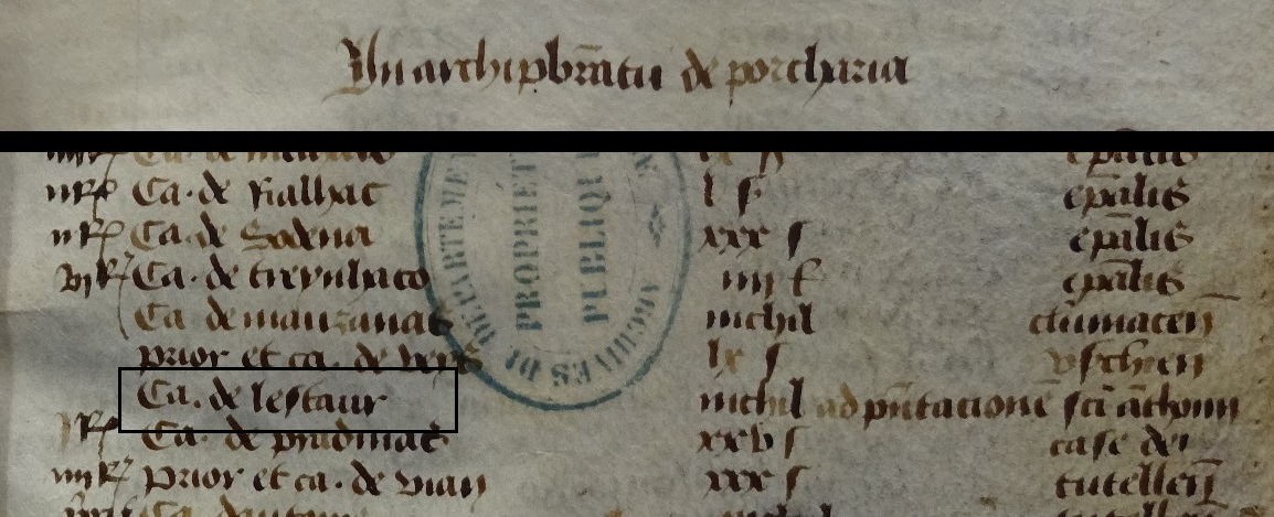 Extrait du Pouillé de 1315. Ancien diocèse de Limoges (Source : Archi.dept.23)